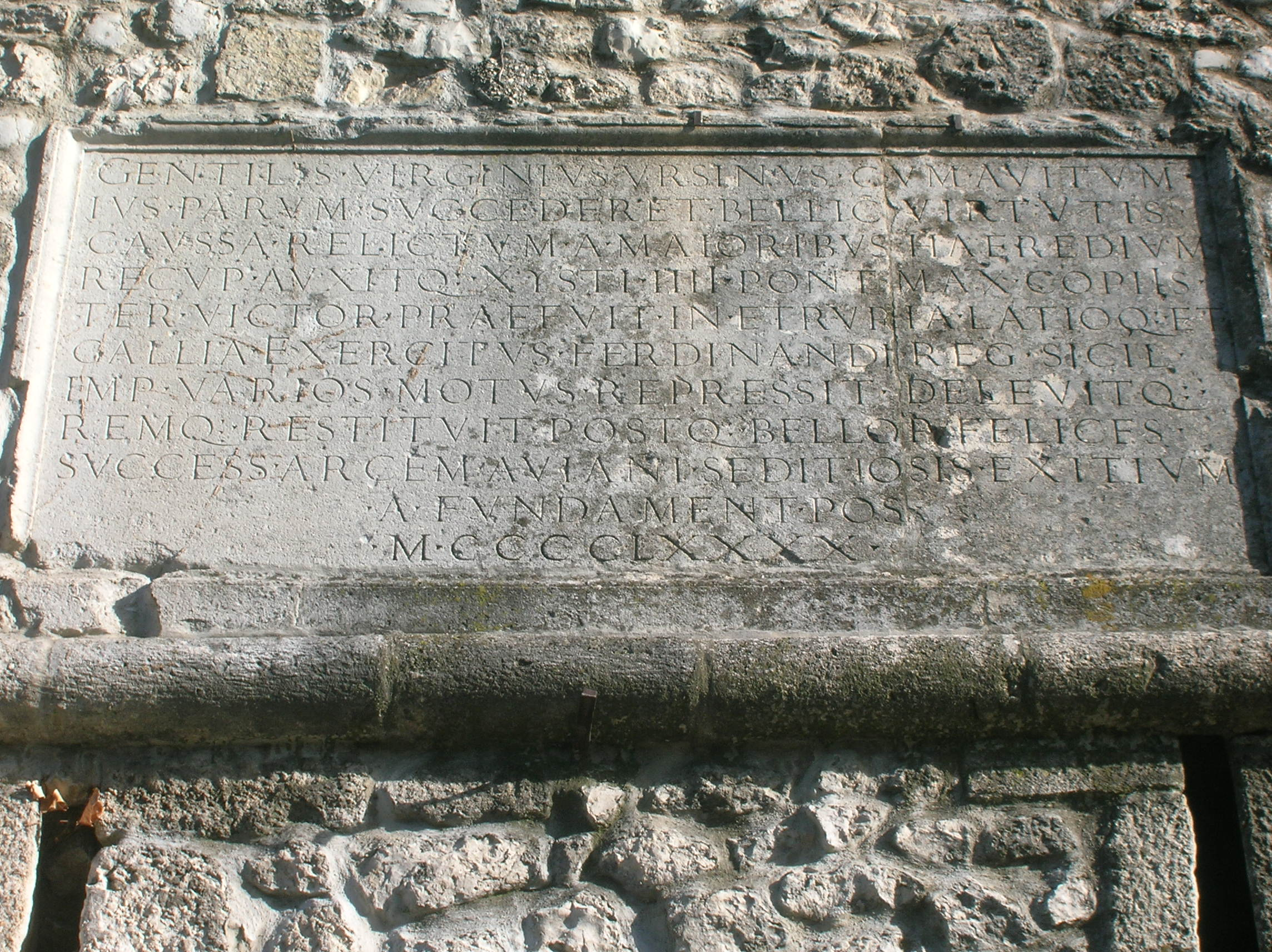 Inscription above a secondary door of the Orsini-Colonna Castle (Castello Orsini-Colonna) in the city of Avezzano (Province of L'aquila, Abruzzo, Italy)